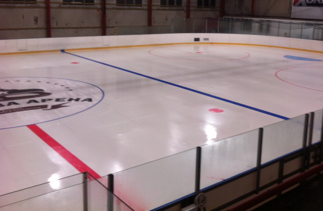 Green ice